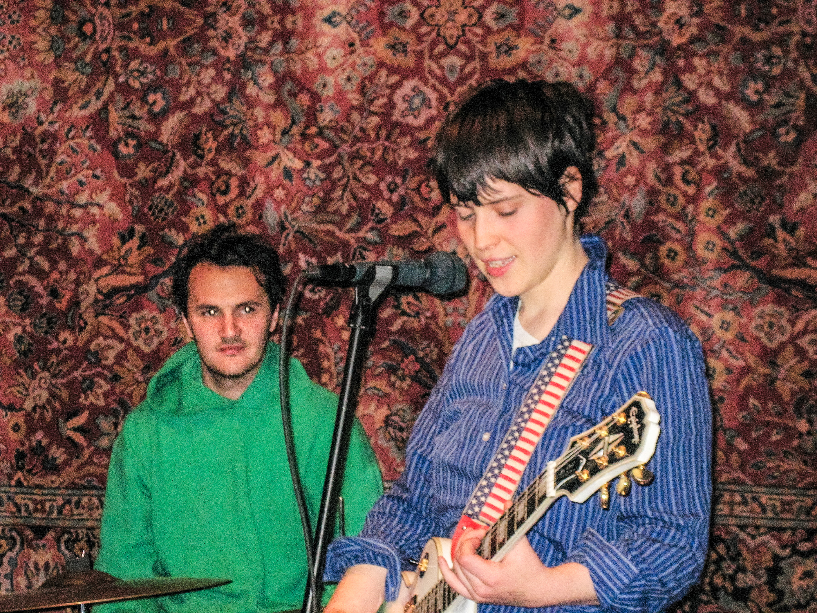 Musicains Phil Elverum and Geneviève Castrée playing together.